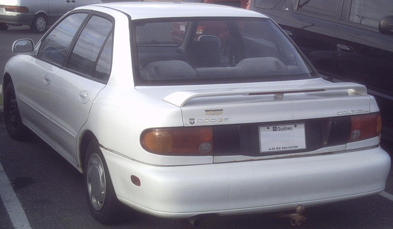 1993-1994 Dodge Colt photographed in Montreal, Quebec, Canada.